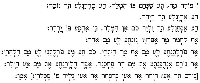 Lord's Prayer.